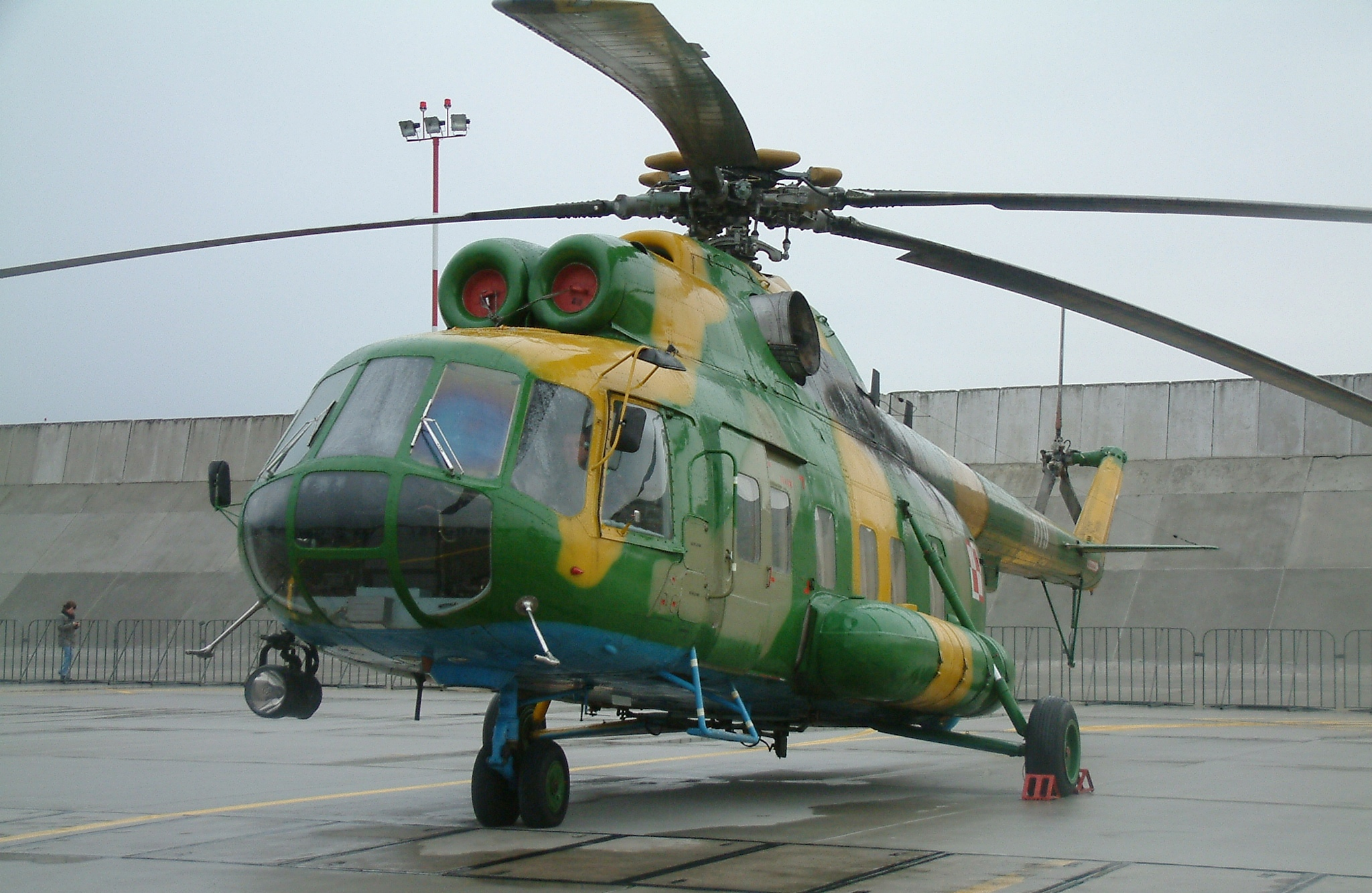 Mi-8S #619 of Polish Air Forces, 31st. Air Base Poznań-Krzesiny